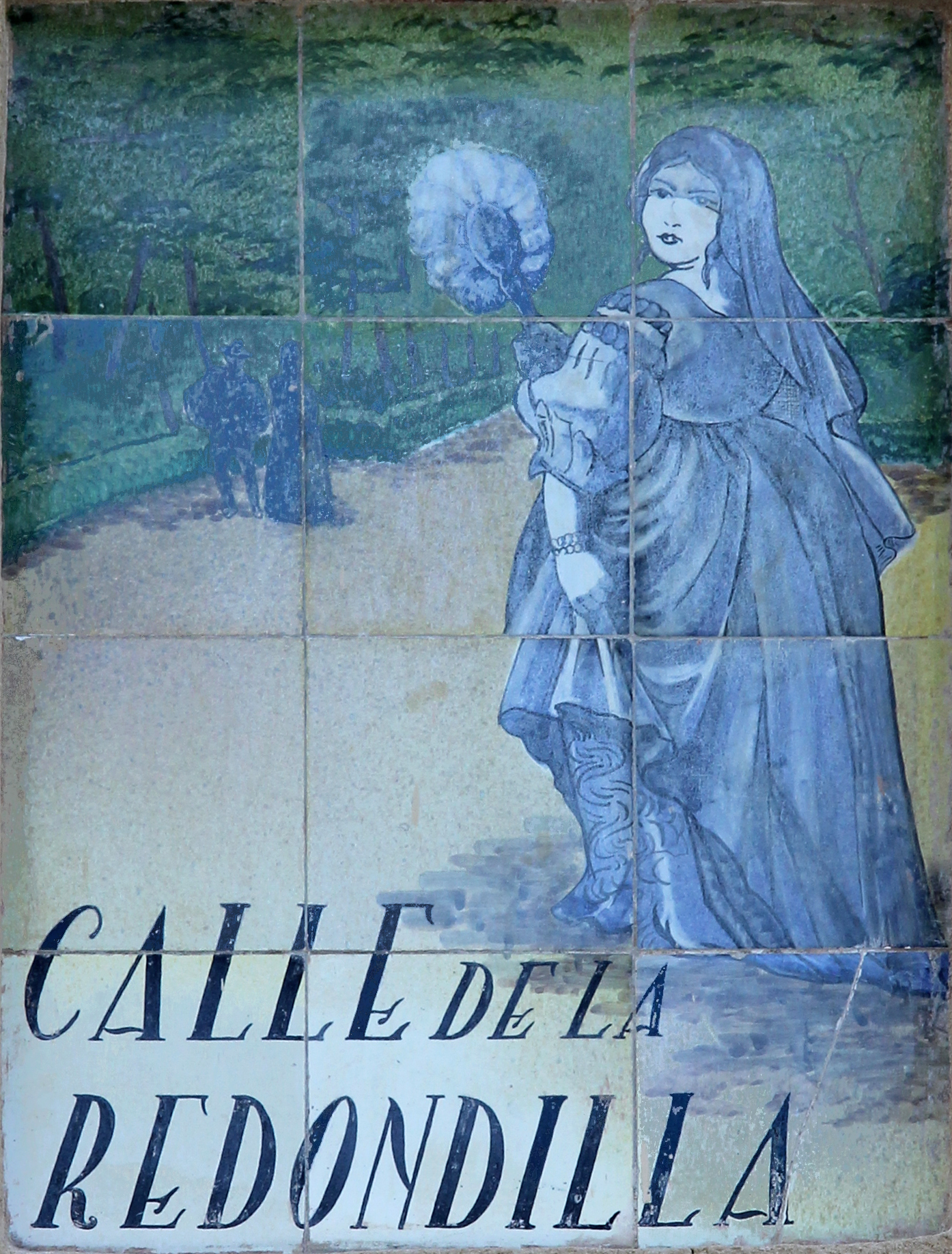 Sign of Calle de la Redondilla (street) in Madrid (Spain).